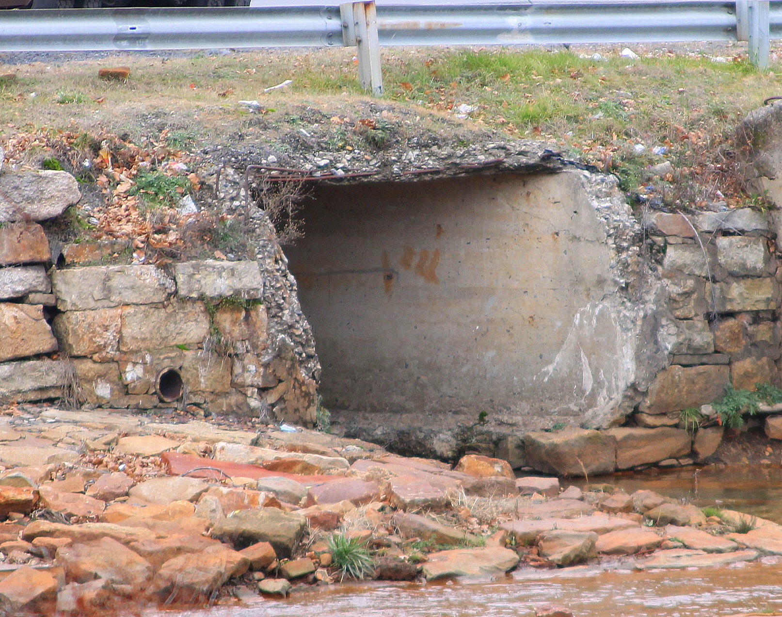 Furnace Run (the stream coming from the tunnel) at its mouth in Shamokin.